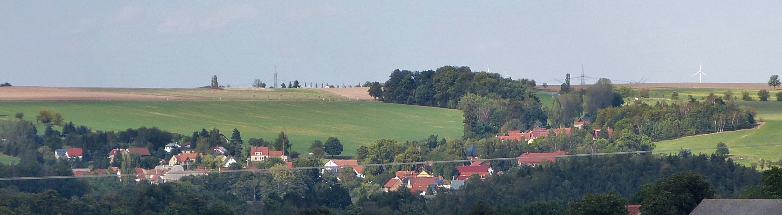 Mosen in the landscape